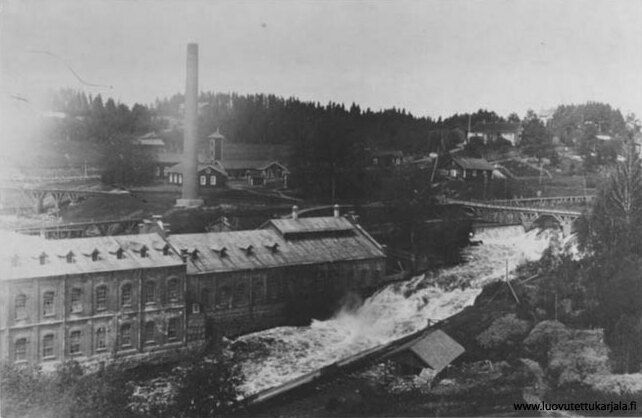 The rapids of Läskelänkoski in the river Jänisjoki and the factories of Läskelä in former Harlu municipality, in the Finnish Karelia ceded to the Soviet Union in 1944.